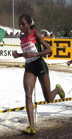 Margaret Wangari Muriuki competing at the 2013 IAAF World Cross Country Championships